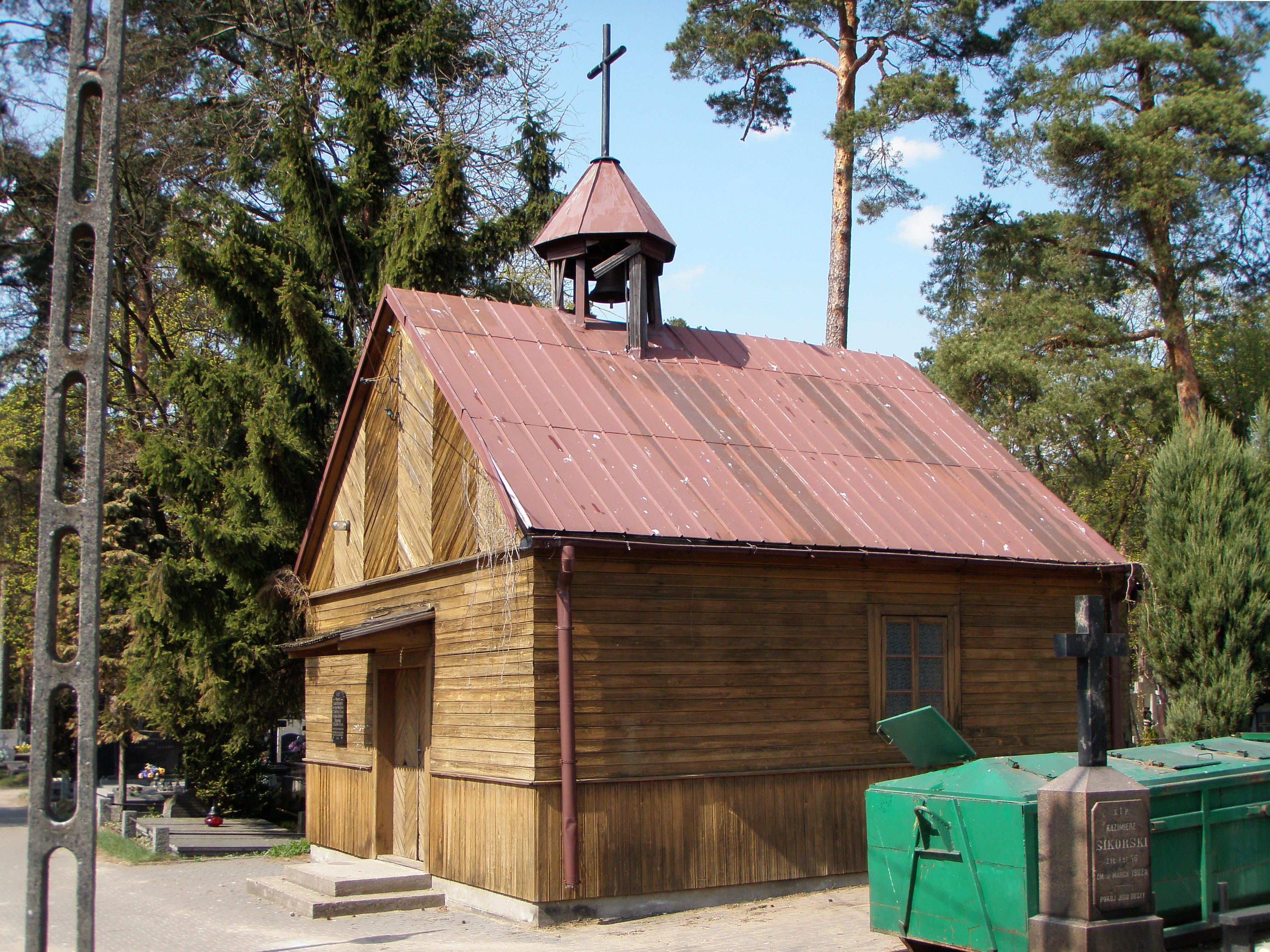 Chapel of Truszkowski Family in Augustów (Poland).